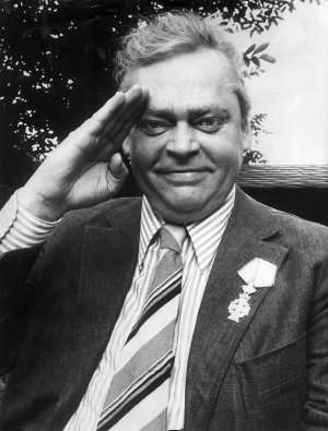 Danish comedian and actor Dirch Passer with "Order of the Dannebrog" on his chest (1974).